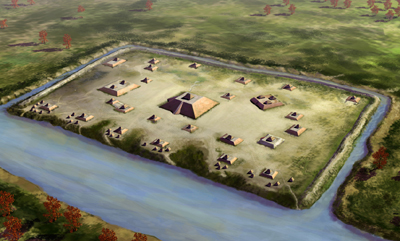 An artists conception of the Holly Bluff Site, sometimes known as the Lake George Site, a Plaquemine Mississippian culture ceremonial mound site in Yazoo County, Mississippi, USA